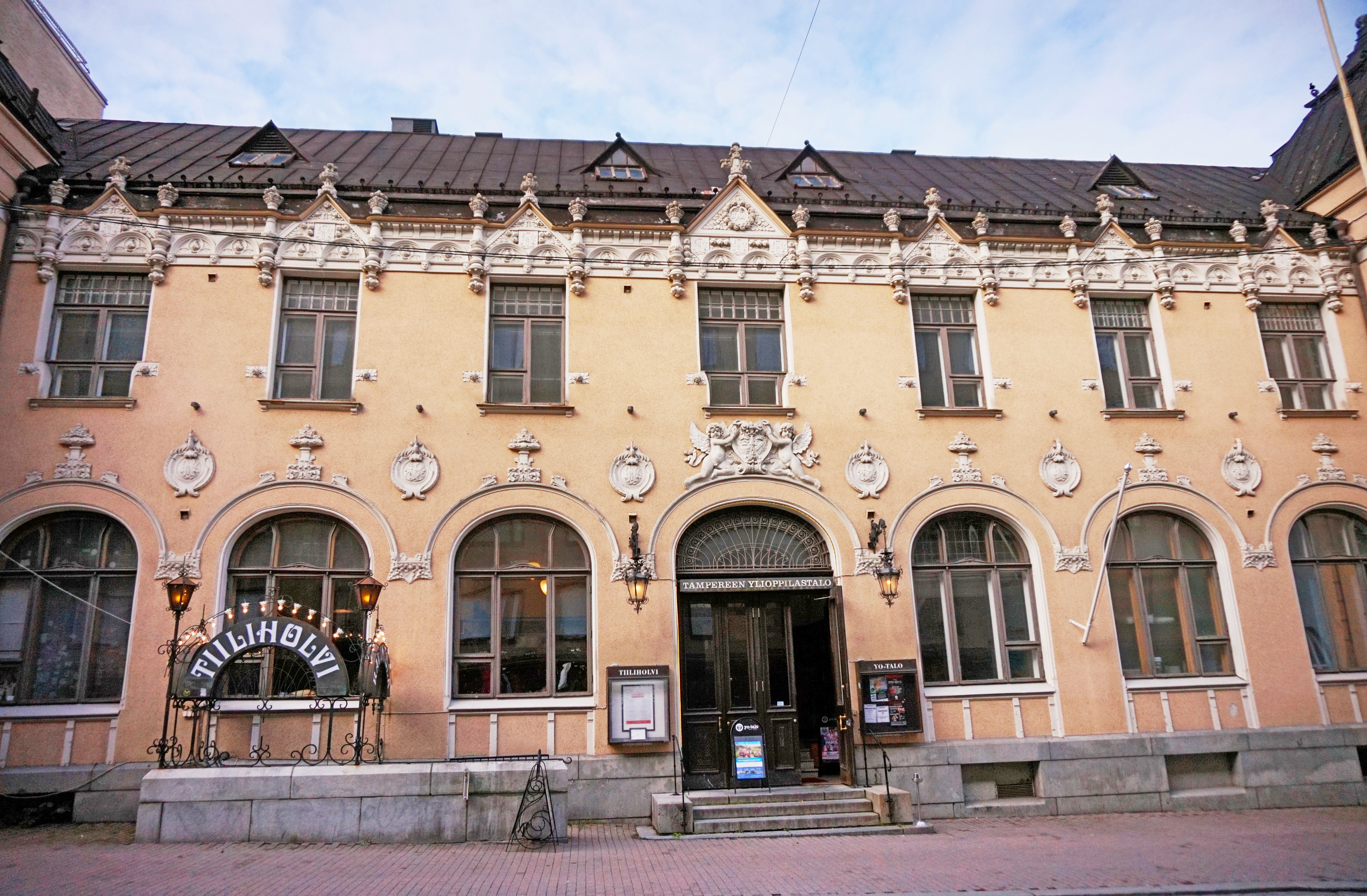 Restaurant Tiiliholvi. Kauppakatu 10, Tampere.